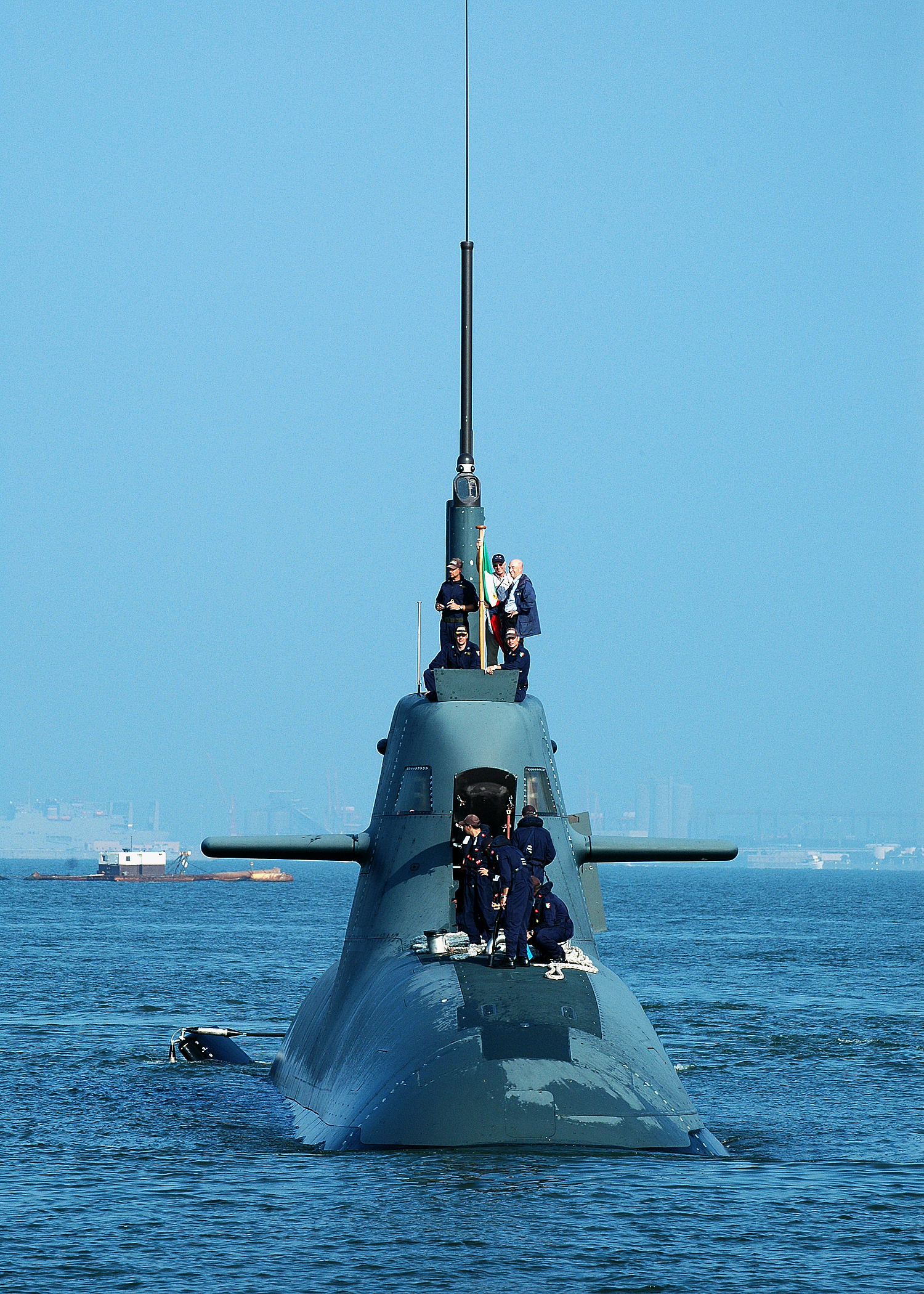 NORFOLK, Va. (August 1, 2008) The Italian submarine ITS Salvatore Todaro (S 526) arrives at Naval Station Norfolk to begin a 13-day port visit after participating in Joint Task Force Exercise (JTFEX) with the Theodore Roosevelt Carrier Strike Group. Todaro's participation in JTFEX and follow-on port visit is a historic first for the Italian Navy, representing the first time since World War II that an Italian submarine crossed the Atlantic Ocean westward. (U.S. Navy photo by Electrician's Mate 2nd Class Xander Gamble/Released)